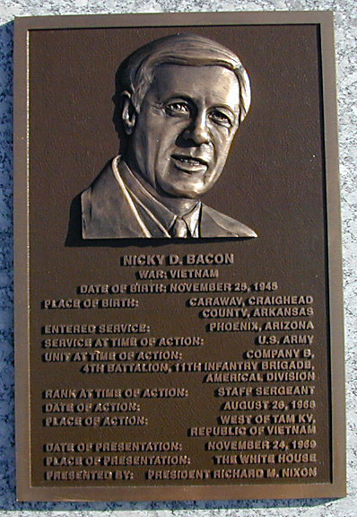 This file is free content and was scanned by the family of Nick Bacon from an image of their own creation in 2008 and is used with their permission. It has no copyright and is thus free to be used as public domain/free use. Shown courtesy of the Arkansas state Medal of Honor Memorial site in Little Rock, a public display.